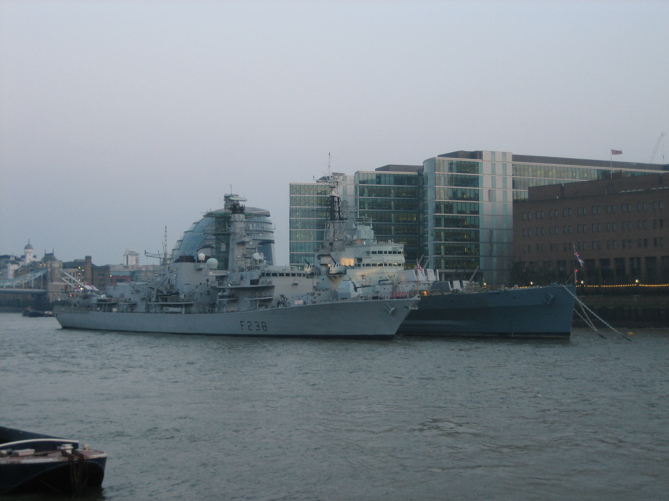 HMS Northumberland alongside HMS Belfast, west of Tower Bridge, as part of the commemoration of the 200th anniversary of the abolition of the slave trade.